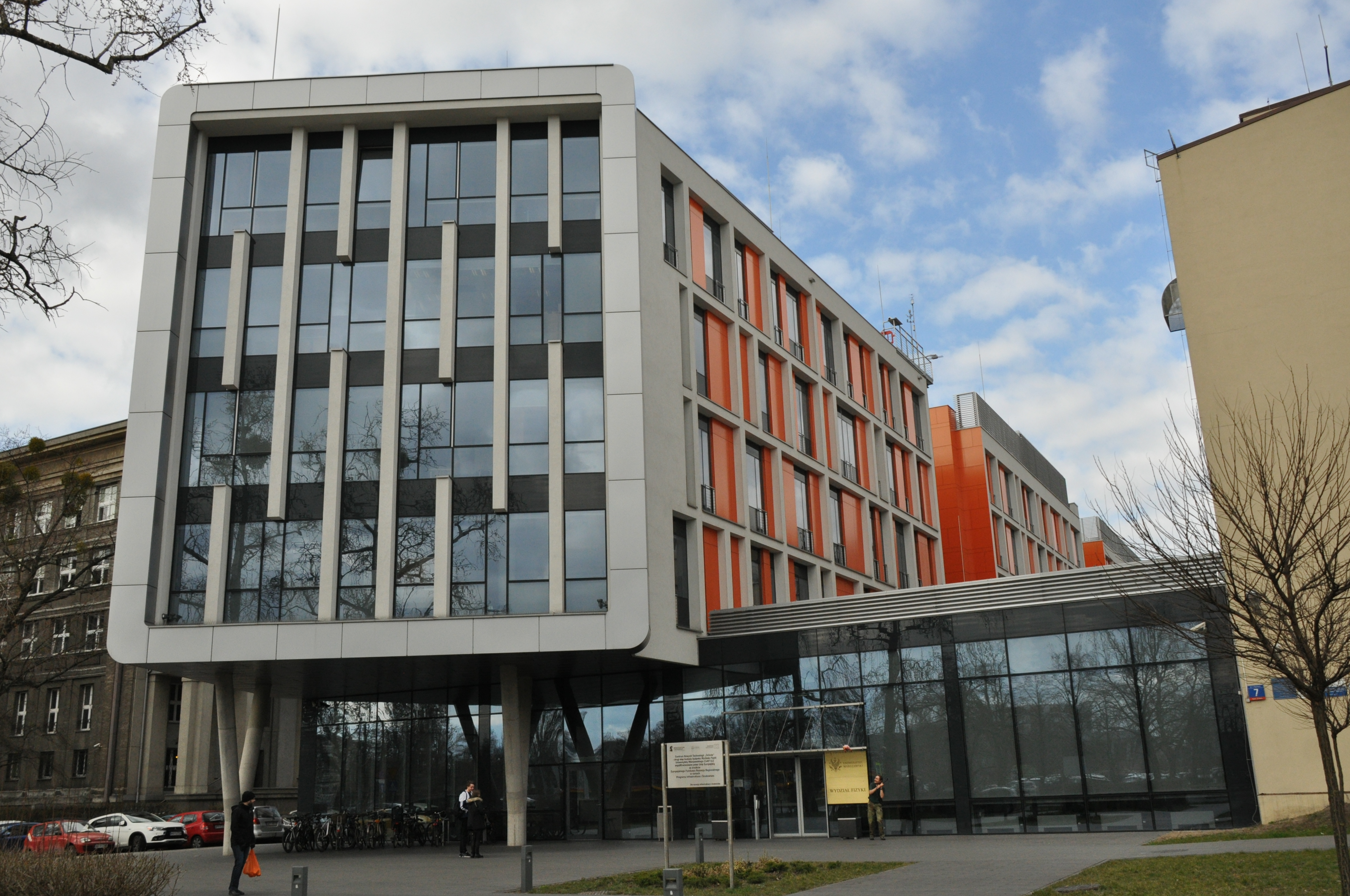 CeNTII building, housing Faculty of Physics, University of Warsaw, seen from Banacha street. This wing is the seat of Institute of Geophysics.